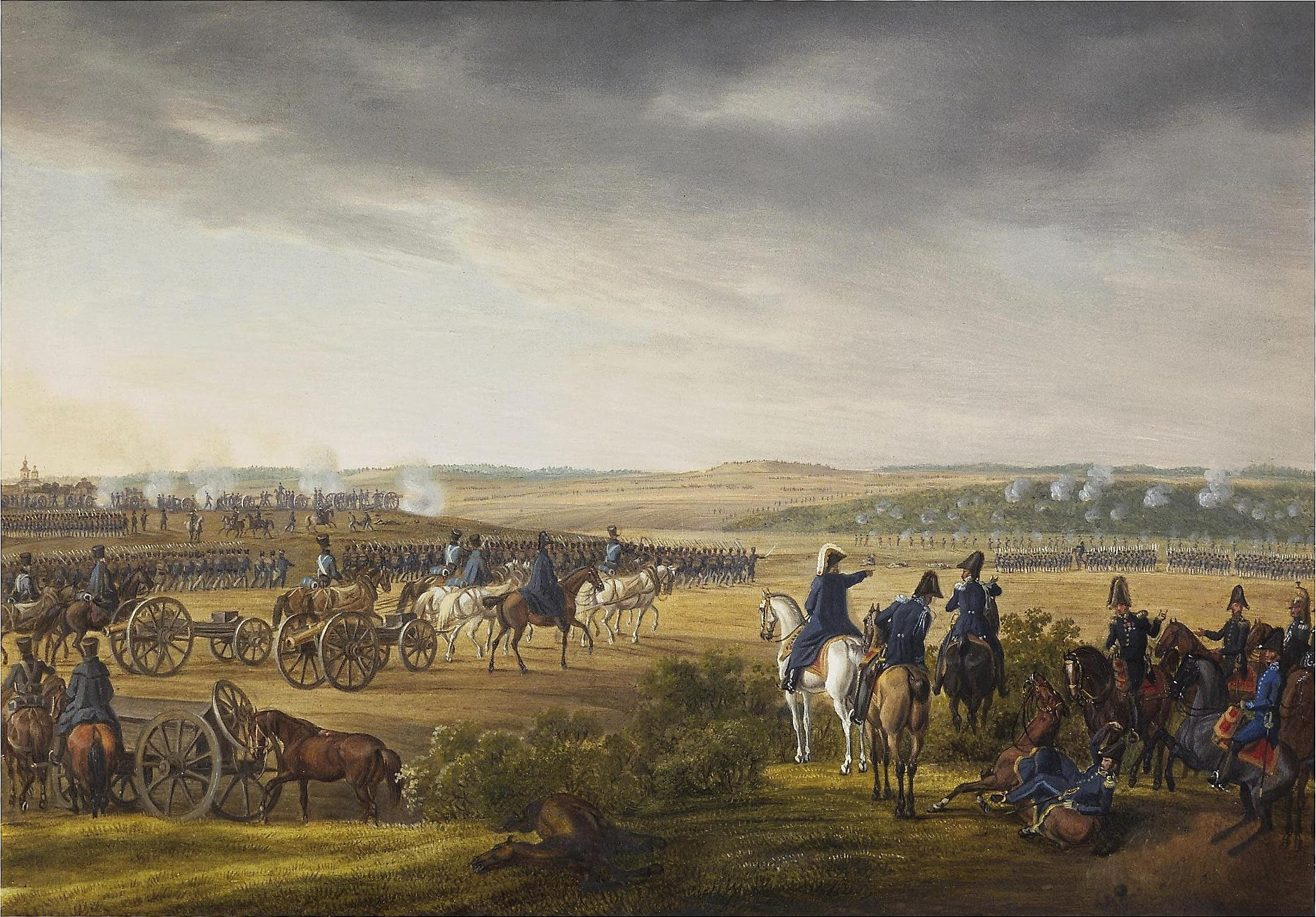 Journal of the 1812 Russian Campaign from Willenberg in Prussia to Moscow of Prince Eugene de Beauharnais, Viceroy of Italy